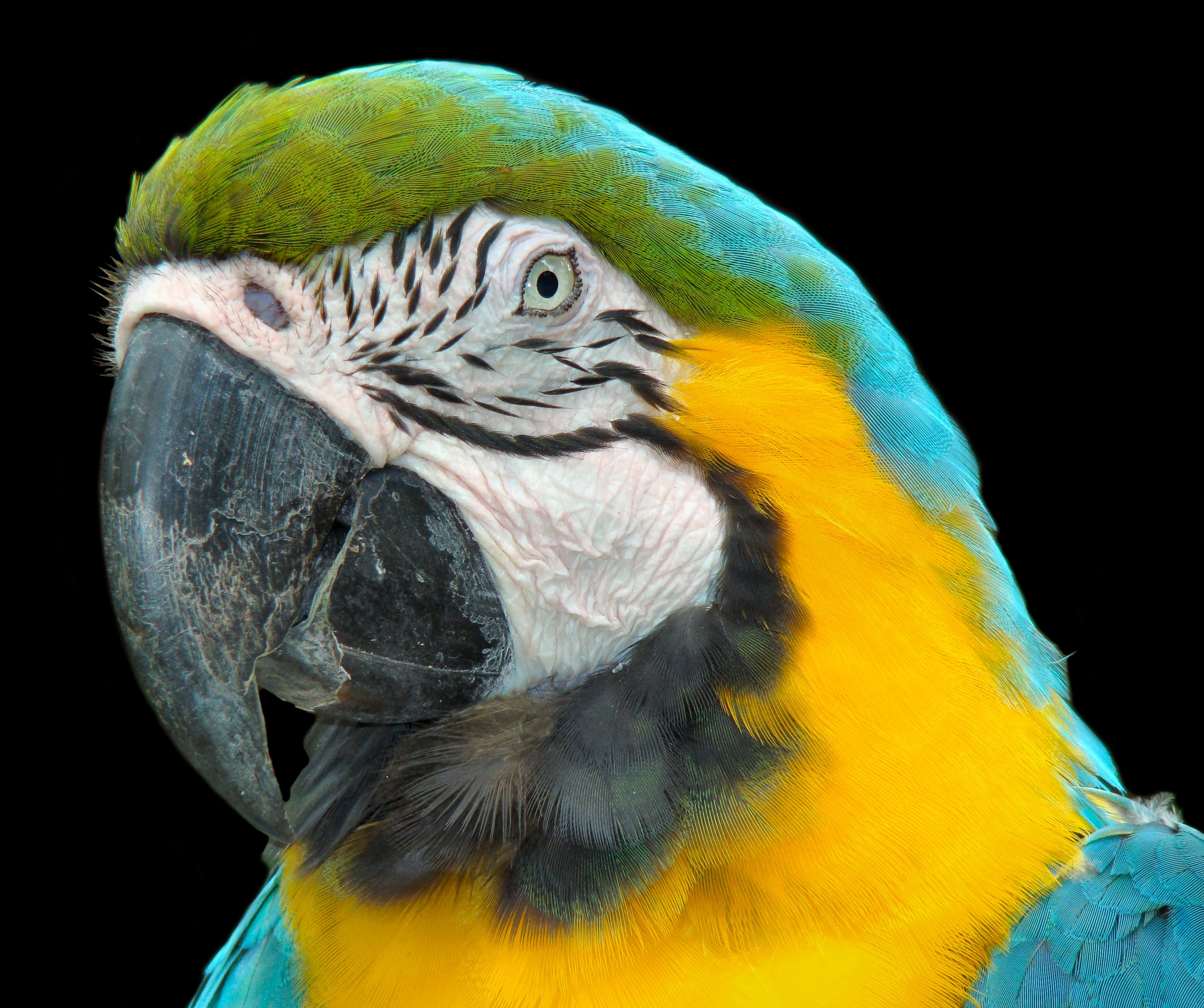 Blue-and-yellow Macaw in the Jurong Bird Park, Singapore